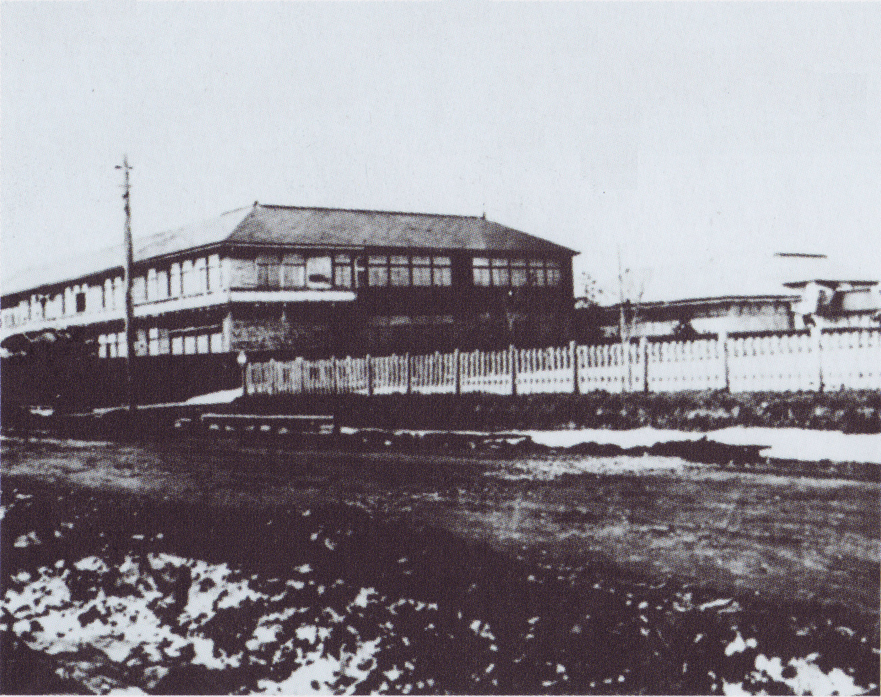 Aomori-Ken Jyoshi Shihan Gakko in Aomori, Aomori pref., Japan.